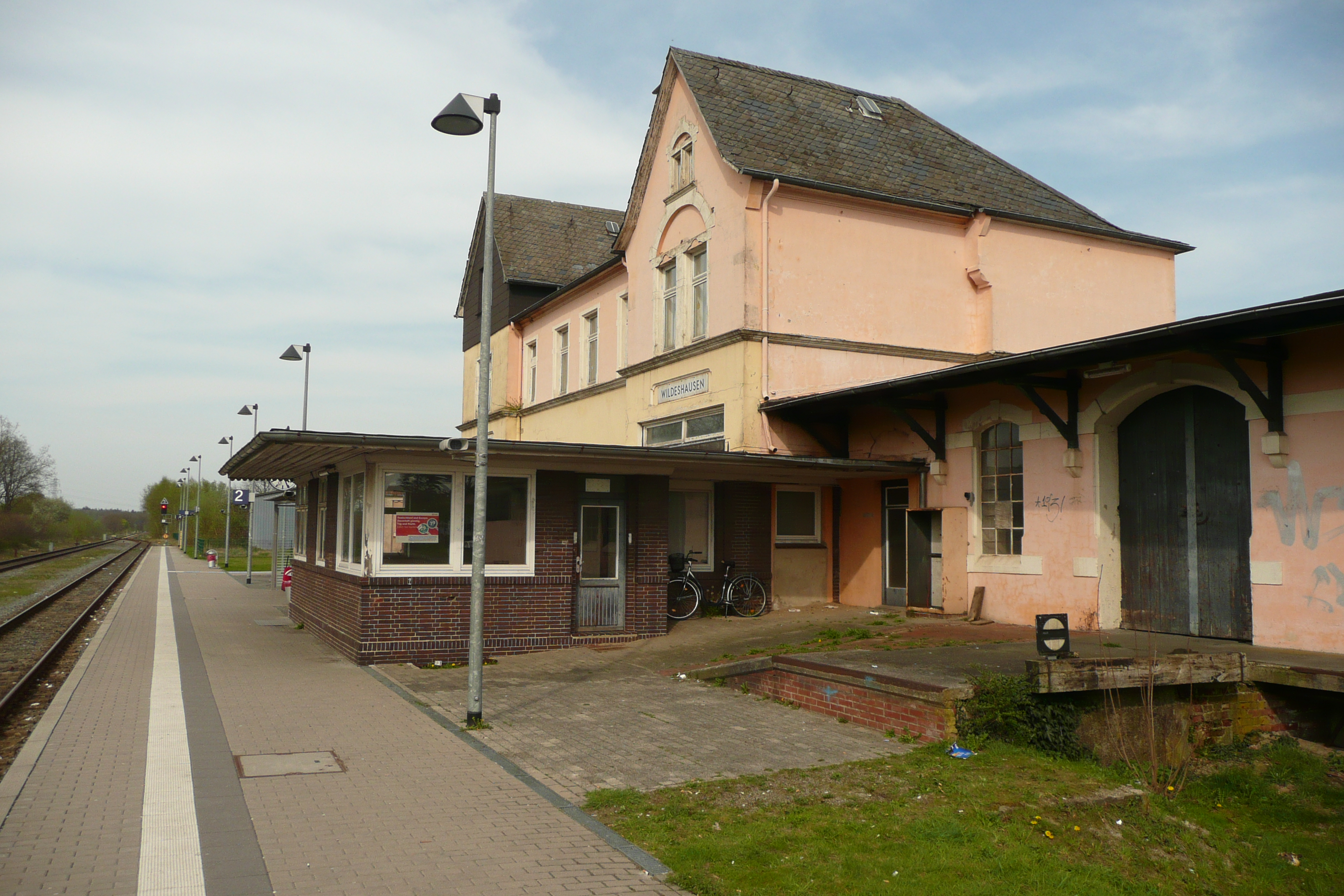 Railway station in Wildeshausen (back side)